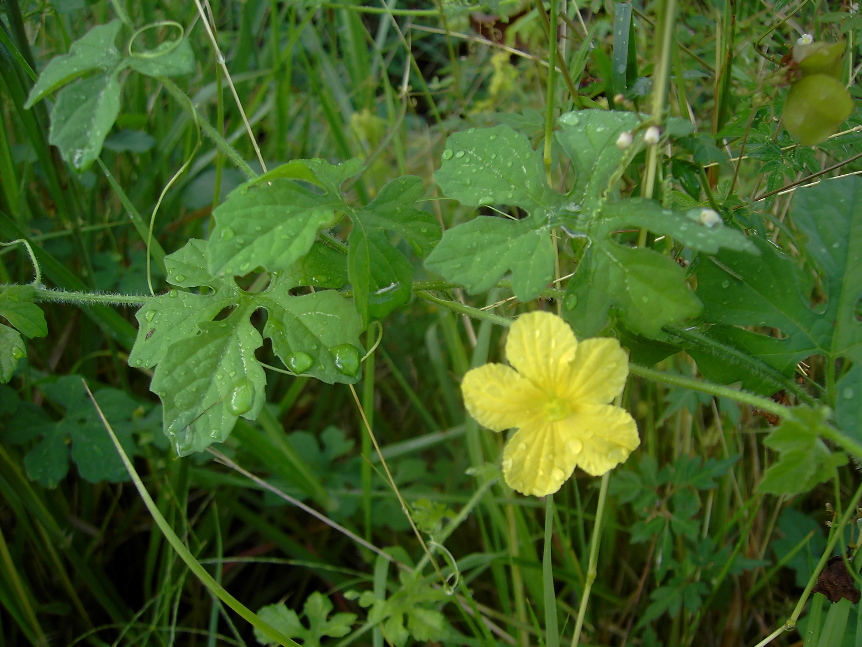 near Palm Tree House, Woodfordhill, Dominica, W.I.